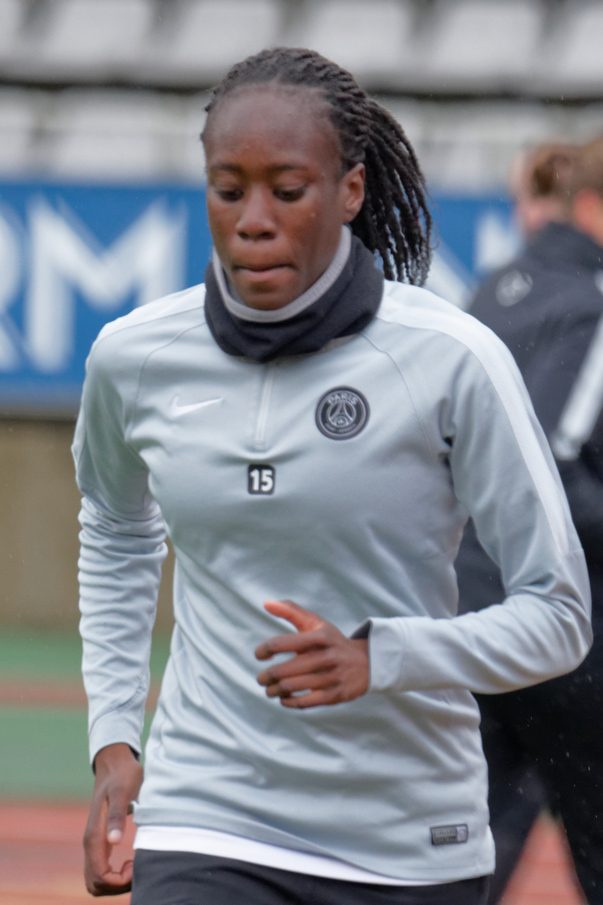 UEFA Women's Champions League, PSG - Wolfsburg, 26 April 2015.